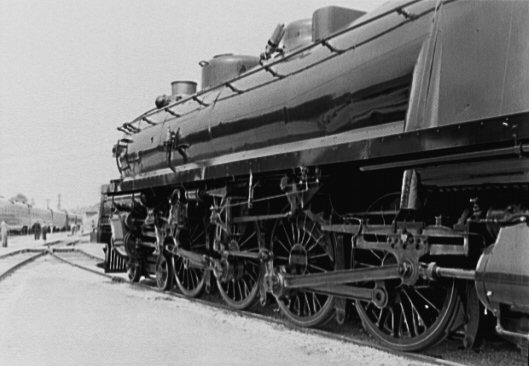 Baltimore and Ohio Railroad duplex locomotive, class N-1 #5600 George H. Emerson, at the 1939 New York World's Fair.